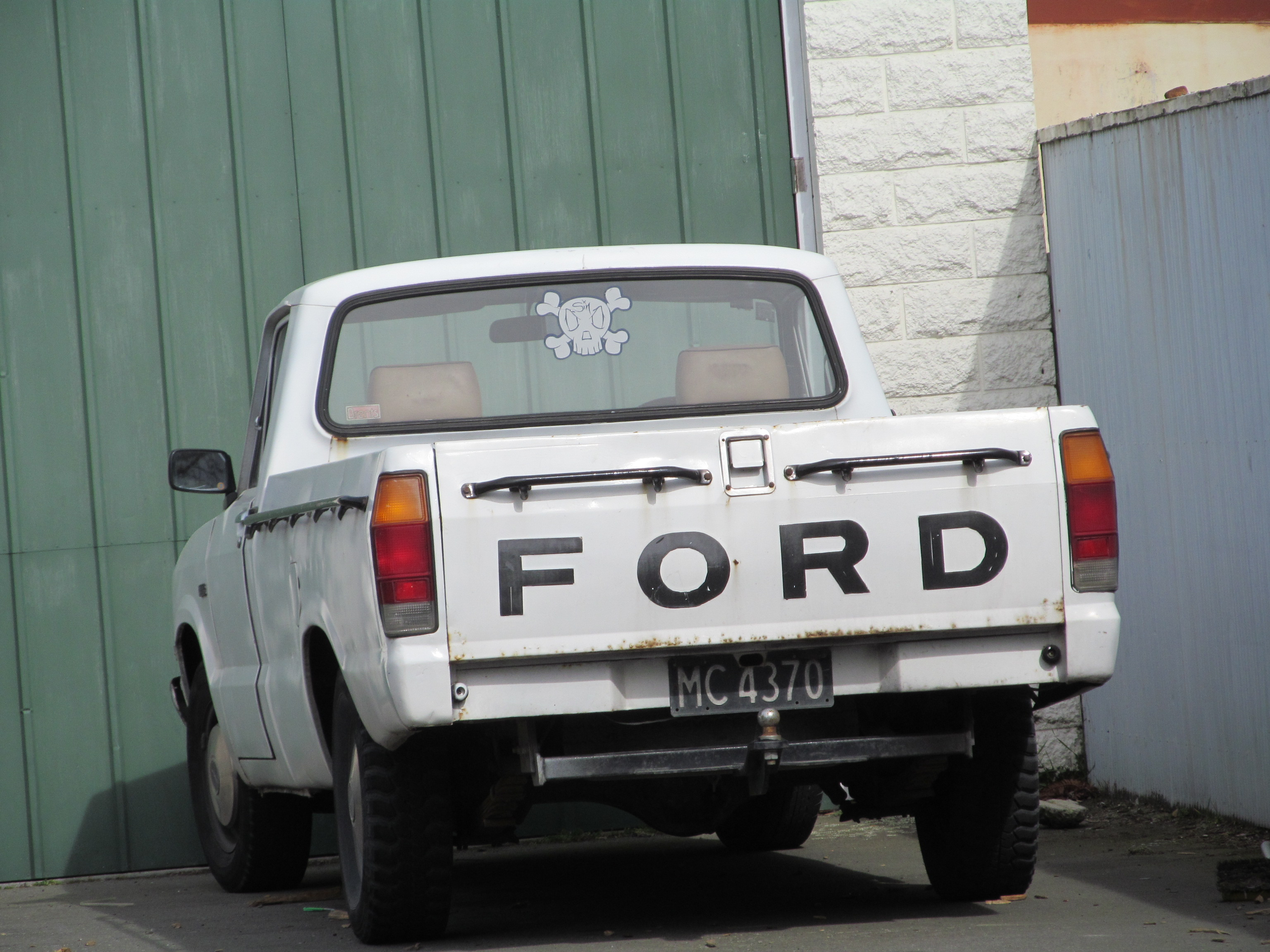 A rebadged Mazda B-Series, though much less common despite the Ford badge.